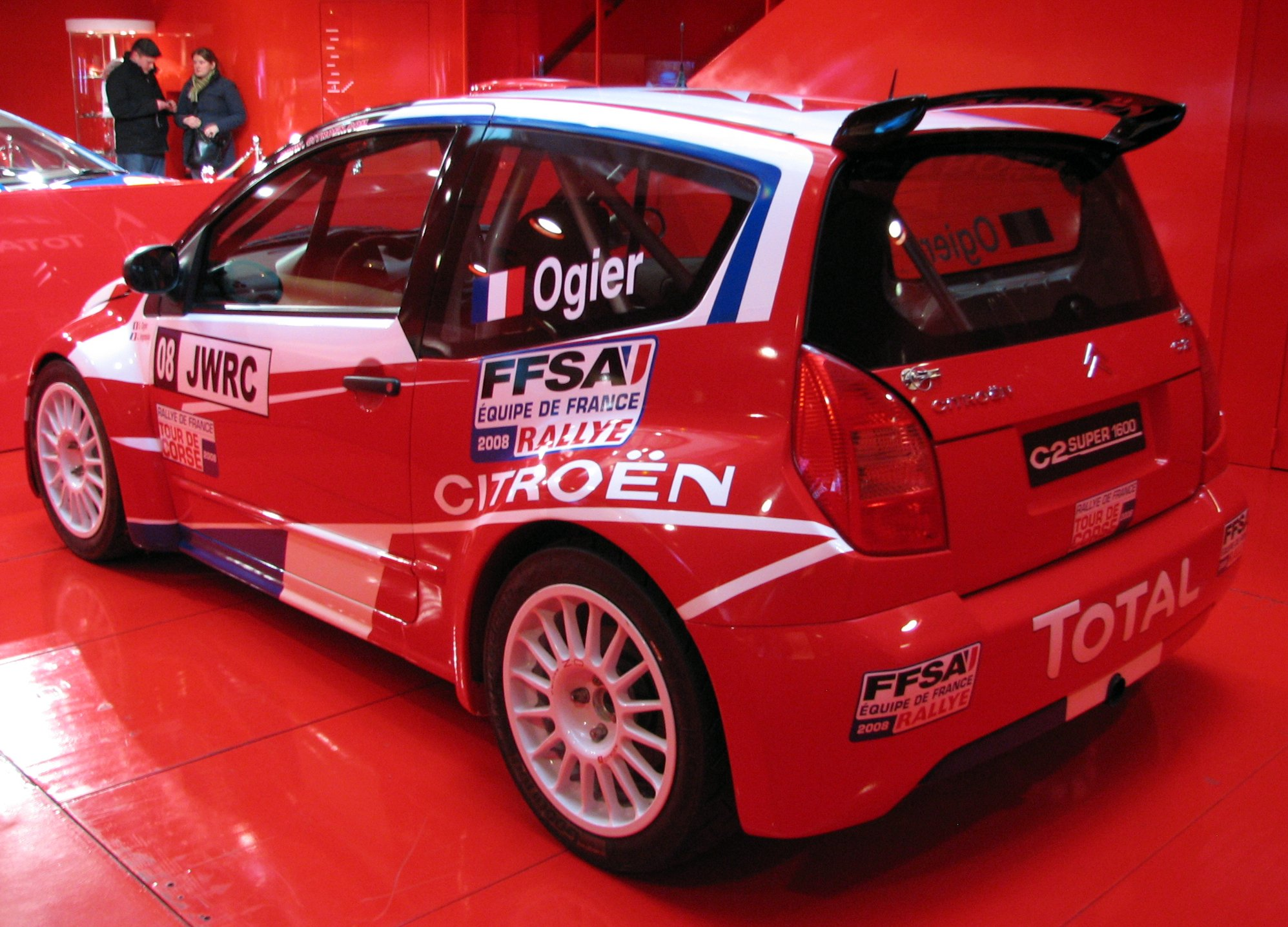 Citroën C2 Rallye Citroën Showroom on the Champs-Elysées